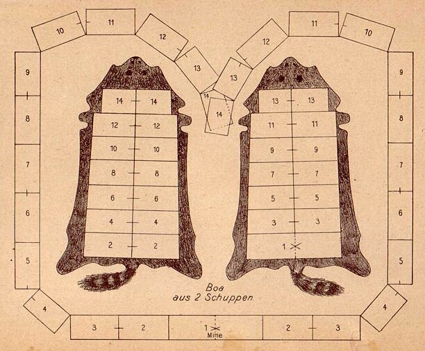 Graphics for Furriers :Boa aus 2 Schuppen